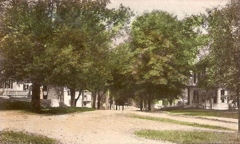 Merrimac Street, looking east, Merrimacport, MA; from a 1911 postcard published by Goodwin & Company.